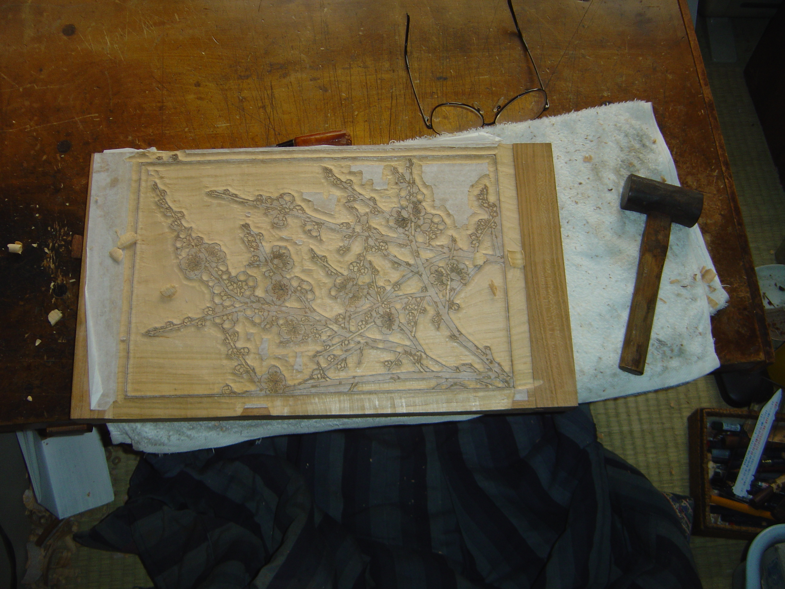 Ukiyo-e workshop, Tsukuba, Japan